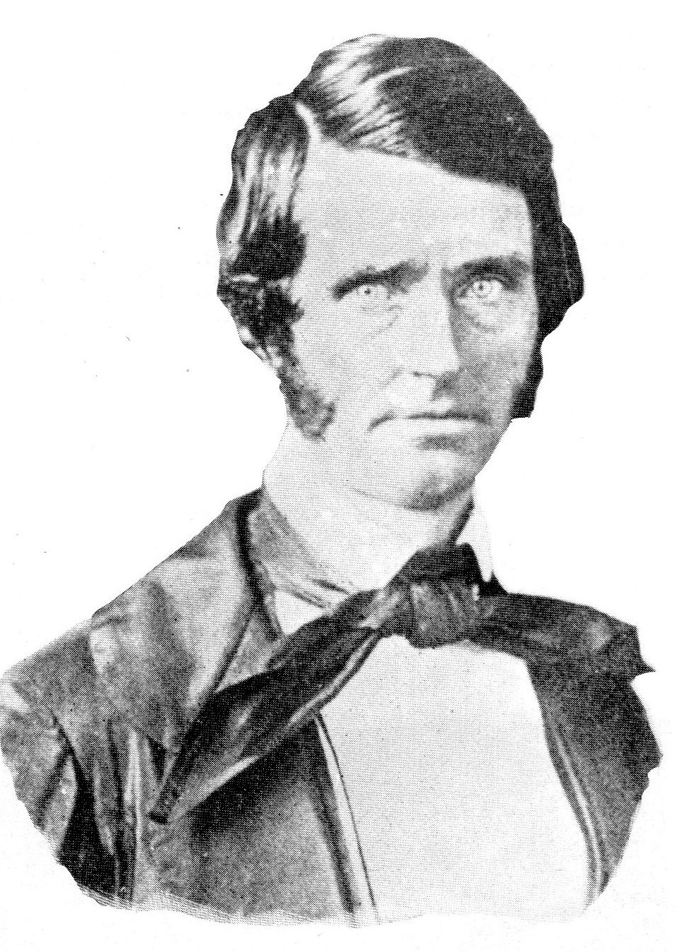 John Wesley Crockett, US Representative from Tennessee